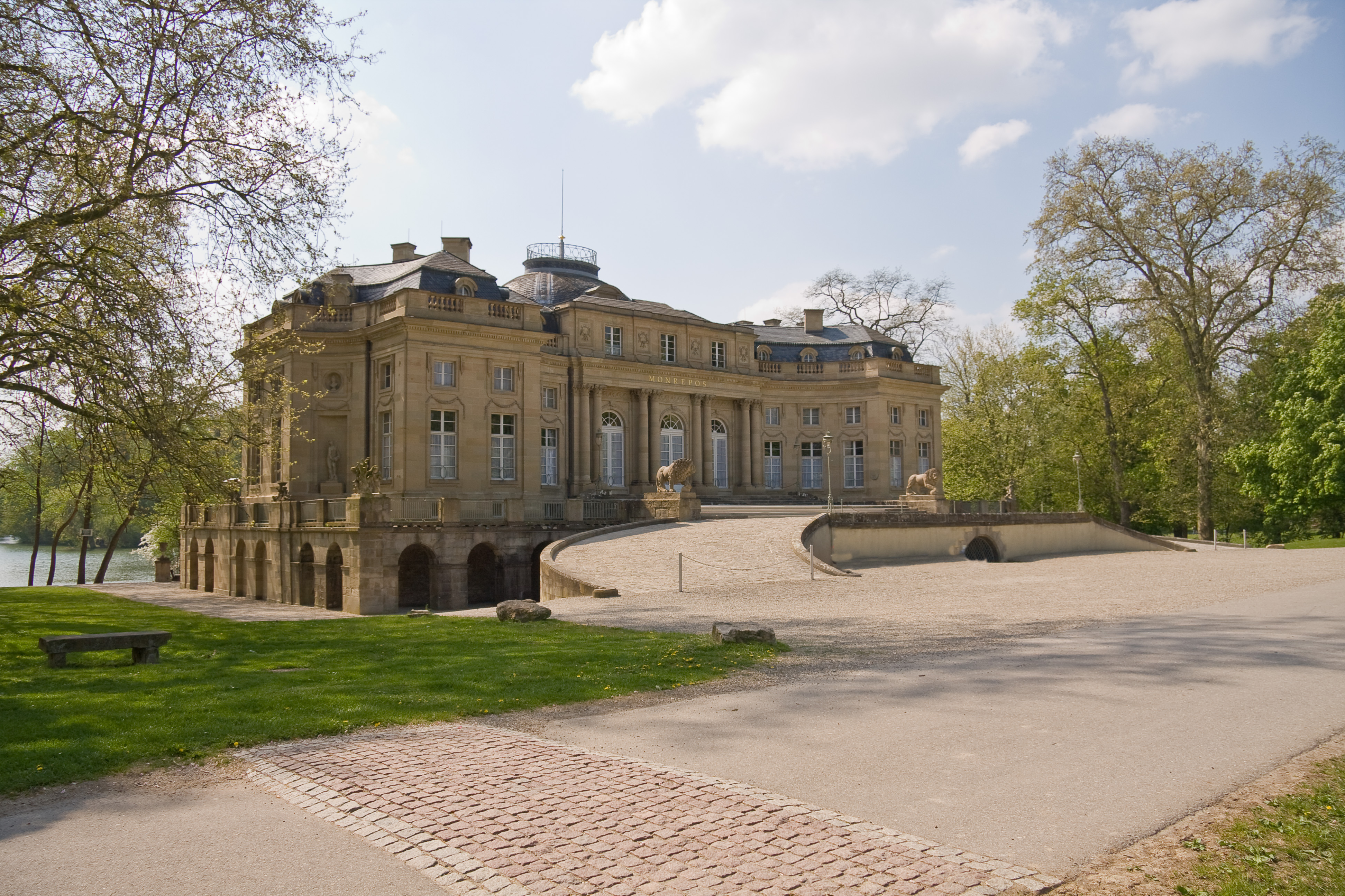 Palace Monrepos in Ludwigsburg, Germany. Photo taken from east.